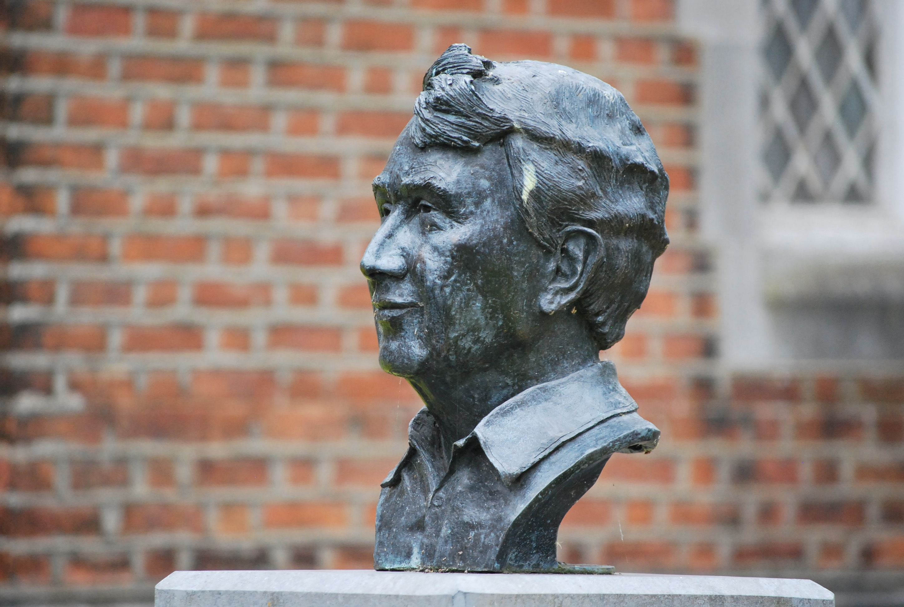 Frank McCourt bust in museum